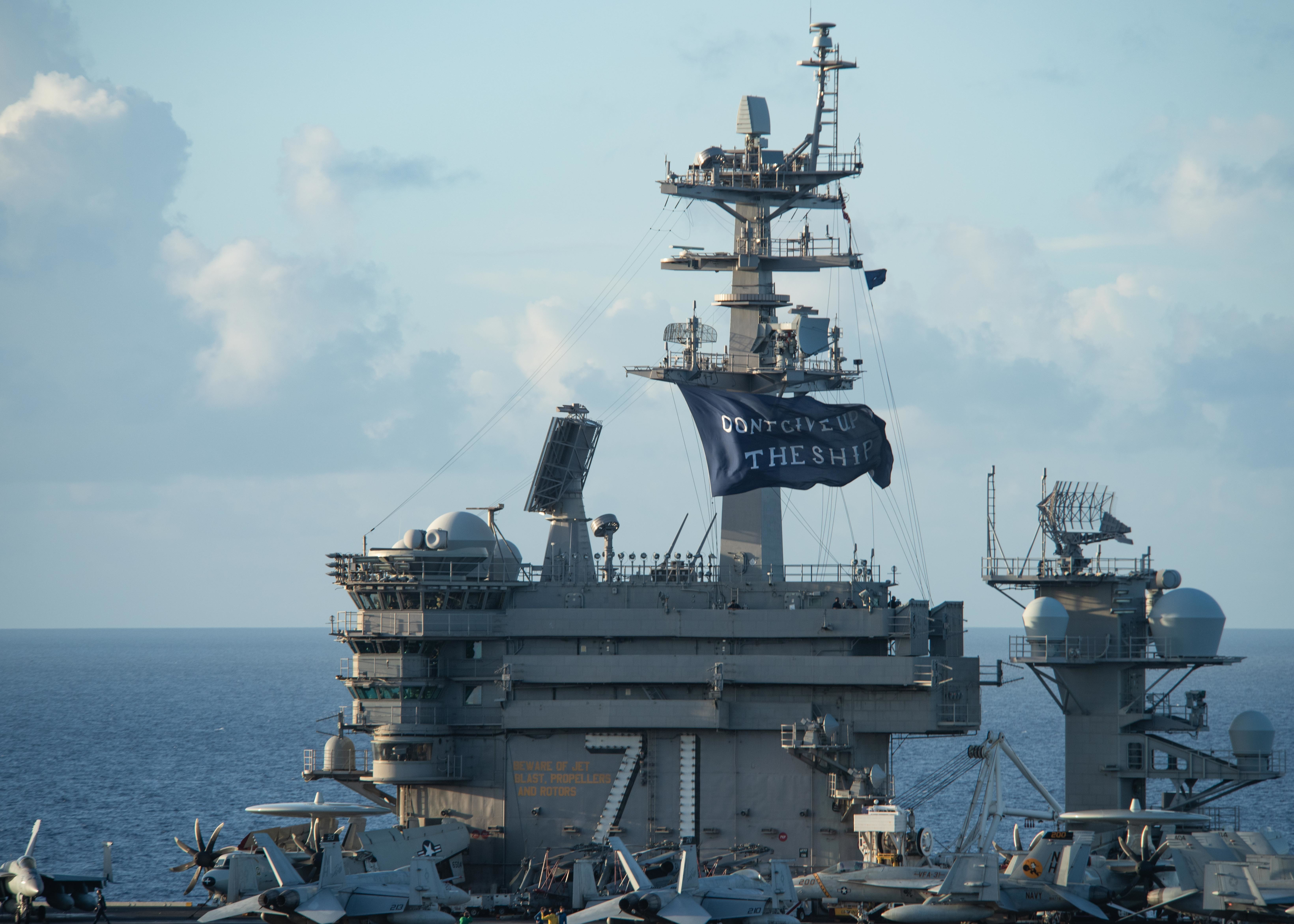 PHILIPPINE SEA (June 3, 2020) The aircraft carrier USS Theodore Roosevelt (CVN 71) flies a replica of Capt. Oliver Hazard Perry’s “Don’t Give Up the Ship” flag, June 3, 2020. Following an extended visit to Guam in the midst of the COVID-19 global pandemic, Theodore Roosevelt completed carrier qualifications June 2 and is in Guam for resupply during a deployment to the Indo-Pacific. (U.S. Navy photo by Naval Air Crewman (Helicopter) 1st Class Will Bennett/Released) 200603-N-N0274-1044